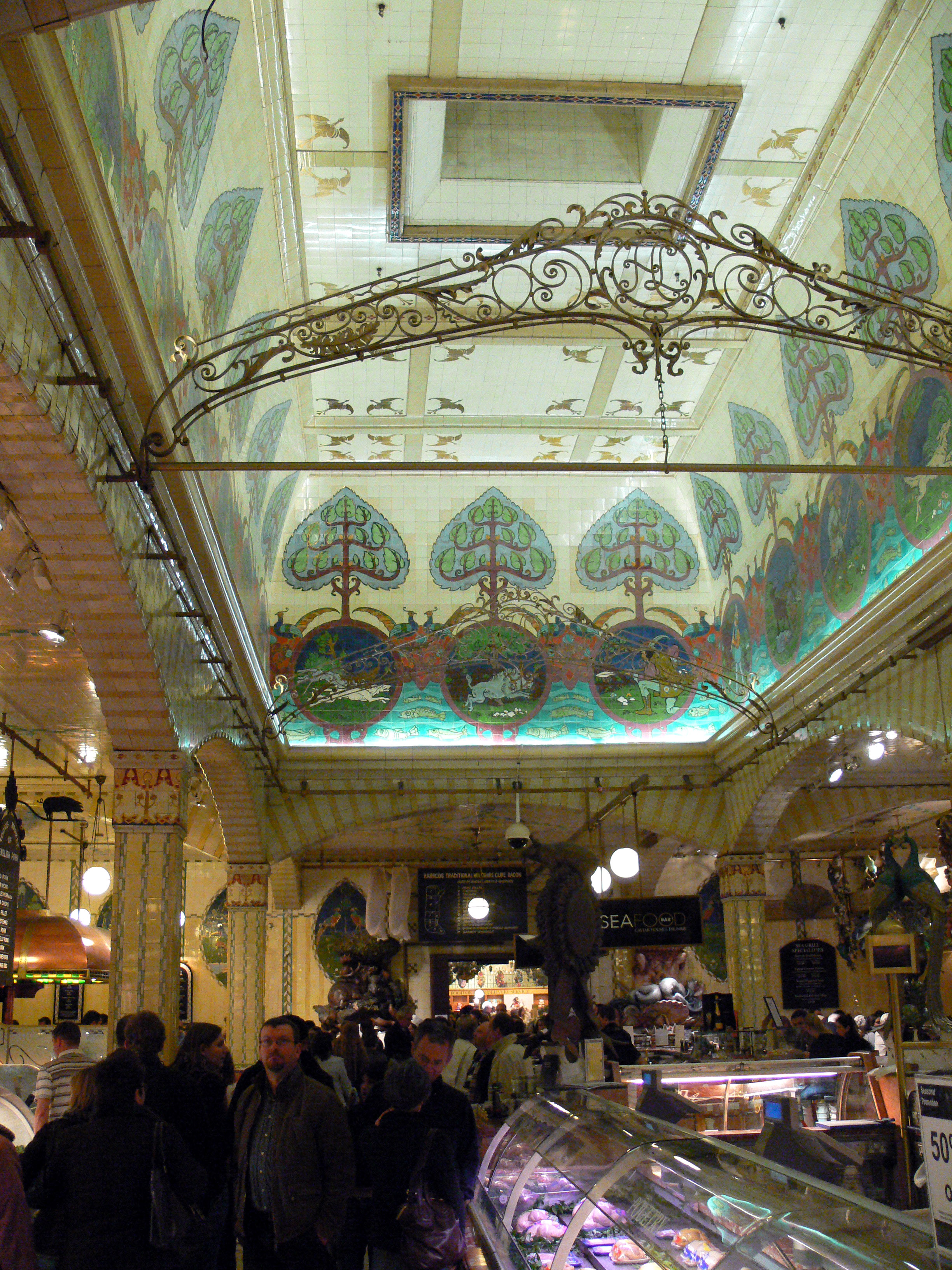 Harrods. Fish.